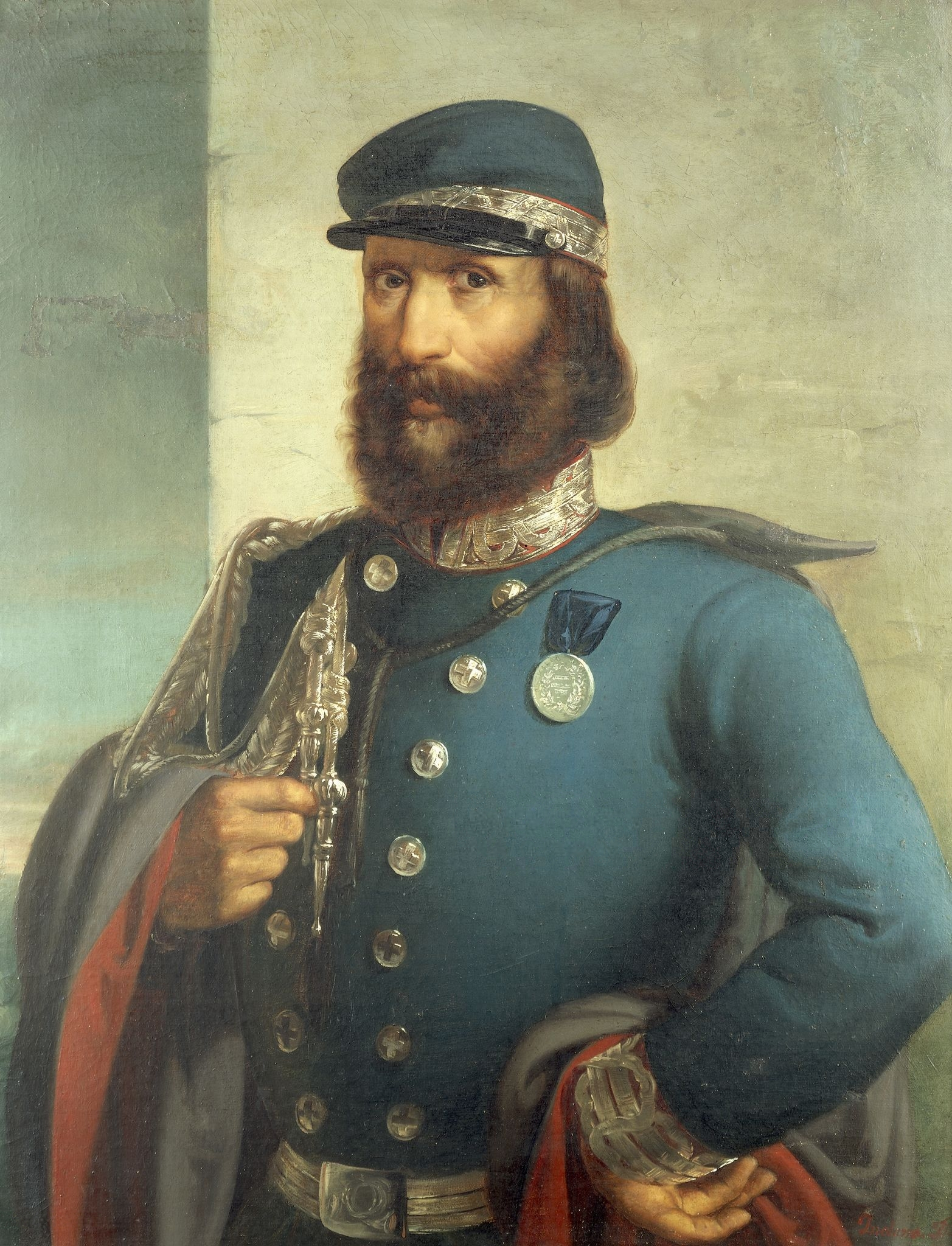 Title: Portrait of Giuseppe Garibaldi (1807-1882)... Caption: ITALY - CIRCA 2002: Portrait of Giuseppe Garibaldi (1807-1882), by Gerolamo Induno (1827-1890). Italian Unification (Risorgimento), Italy, 19th century. (Photo by DeAgostini/Getty Images) Date created: 01 Jan 2002 Editorial image #: 150617240 Restrictions: Contact your local office for all commercial or promotional uses. Licence type: Rights-managed Photographer: DEA / G. CIGOLINI/Contributor Collection: De Agostini Credit: De Agostini/Getty Images Max file size/dimensions/dpi: 27.2 MB - 2695 x 3527 px (22.82 x 29.86 cm) - 300 dpi Download file size may vary. Source: De Agostini Editorial Release information: Not released. More information Bar code: 11201860 Object name: 11201860 Keywords: Art And Craft, Pride, People, Authority, Confidence, History, Leadership, Vertical, Looking At Camera, Indoors, Front View, Beard, Army Soldier, Italy, Traditionally Italian, One Person, Military, Adult, Mature Adult, Politics, Art And Craft, Illustration and Painting, One Mature Man Only, Only Men, One Man Only, Portrait, 19th Century Style, Military Uniform, Gerolamo Induno, Adults Only, Giuseppe Garibaldi, Arts Culture and Entertainment. Find similar images Availability: Availability for this image cannot be guaranteed until time of purchase.